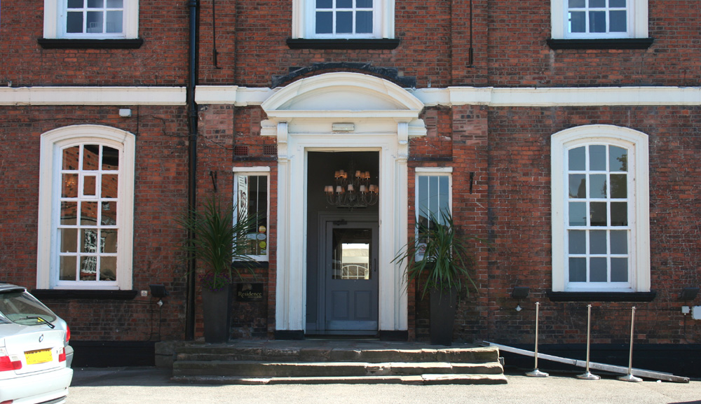 Doorway of 9 Mill Street, Nantwich